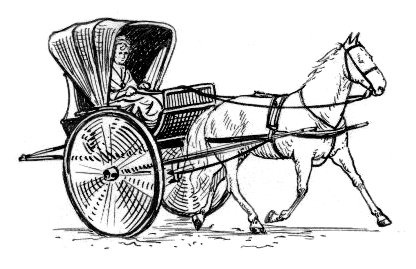 line art drawing of chaise.